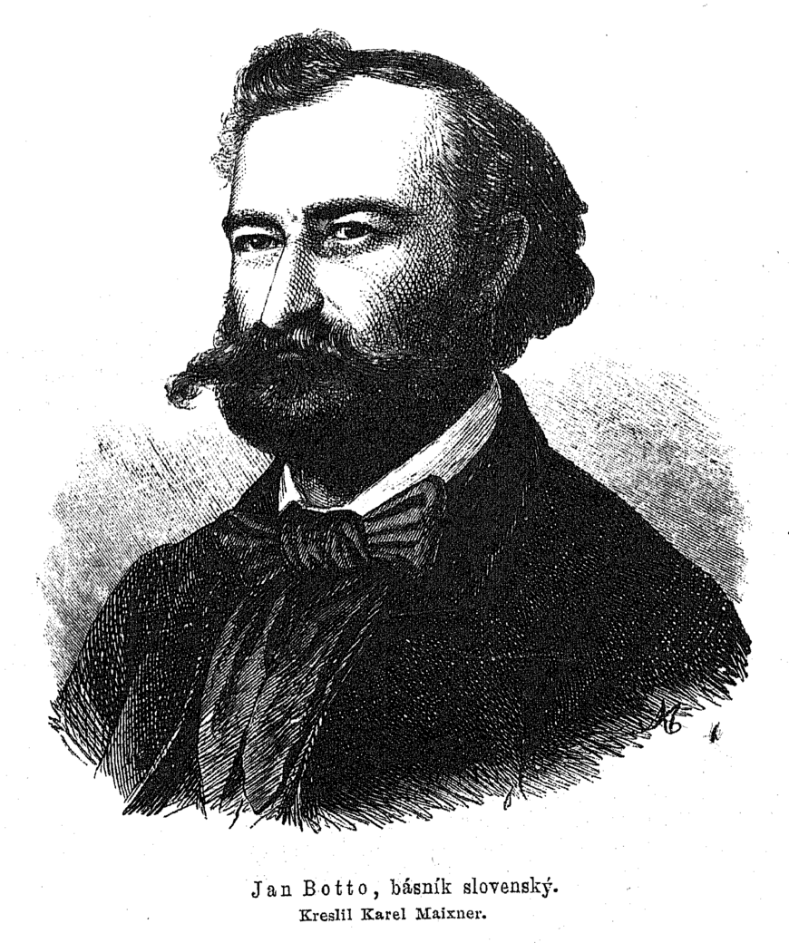 Portrait of Ján Botto, Slovak poet.